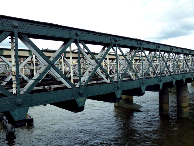 Hungerford Bridge- looking from the footbridge towards the rail bridge